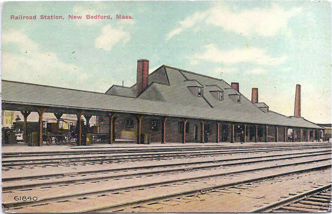 Early divided back postcard of New Bedford station